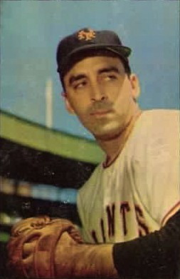 New York Giants pitcher Sal Maglie. Mislabeled as 1956, actually from 1953 Bowman set.